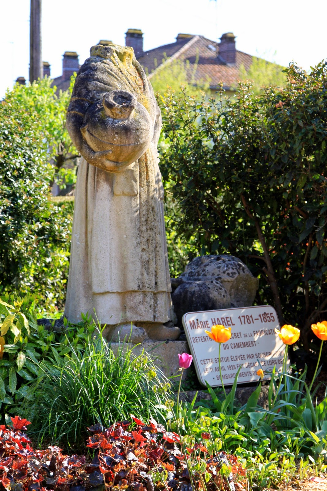 Marie Harel (born Marie Catherine Fontaine; April 28, 1761 – November 9, 1844) was a French cheesemaker, who, according to local legend, invented Camembert cheese